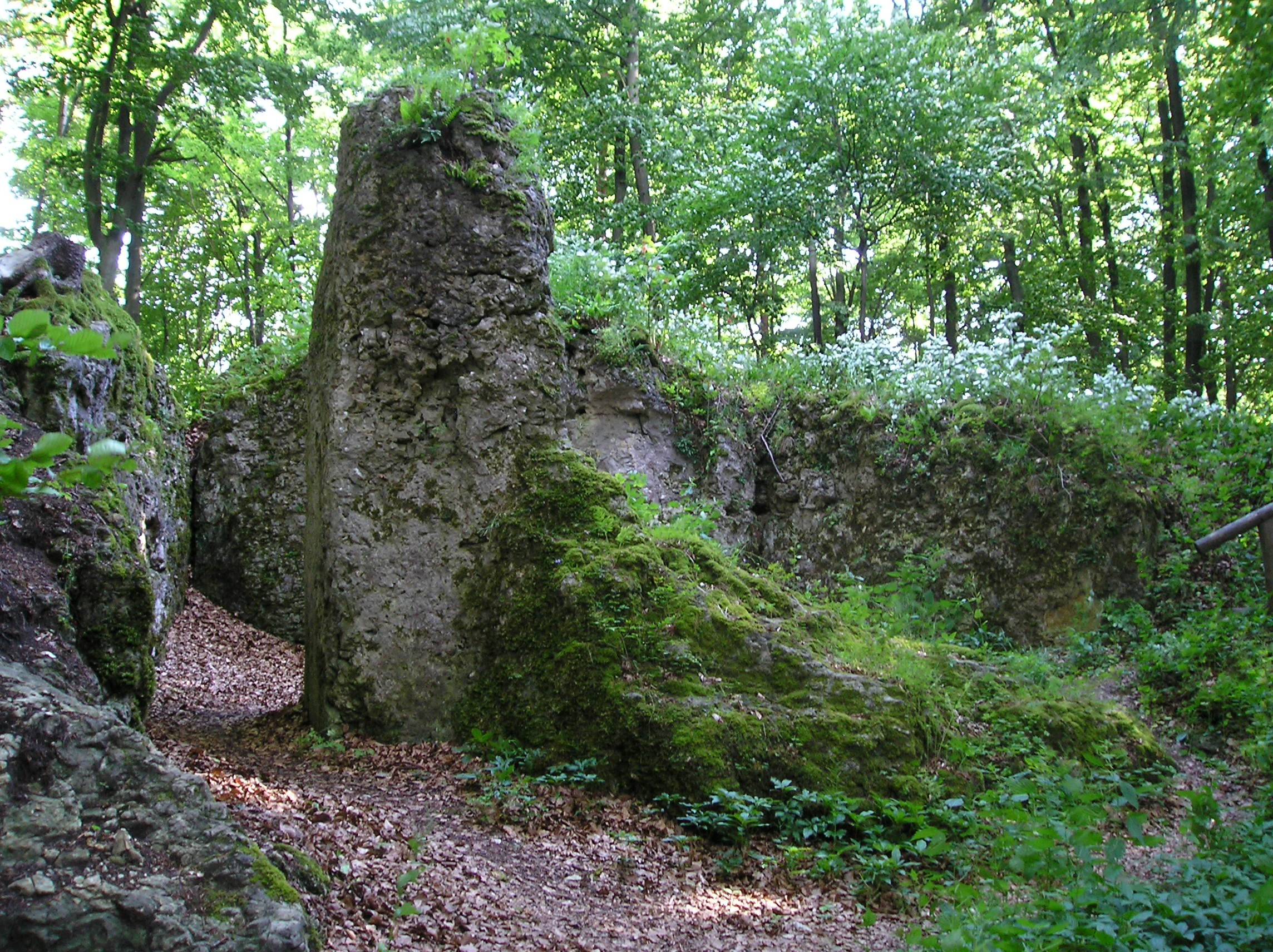 Stele at the entry side of the Schlossberg next to Haidhof in the Franconian Swiss mountain range, Bavaria. Germany. The stele is carved out of the rocks of the Schlossberg and is supposed to be a part of the gate bridge of the old castle that was located there.